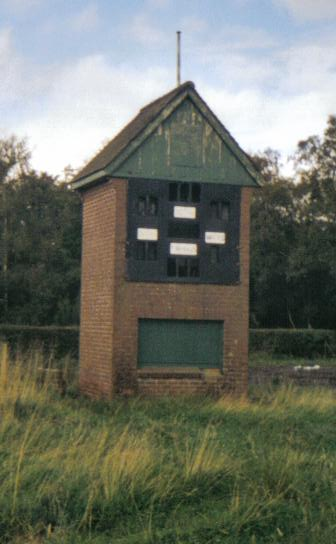 The Score Board building at the old Dunlop Cricket Club ground in Dunlop, East Ayrshire, Scotland.